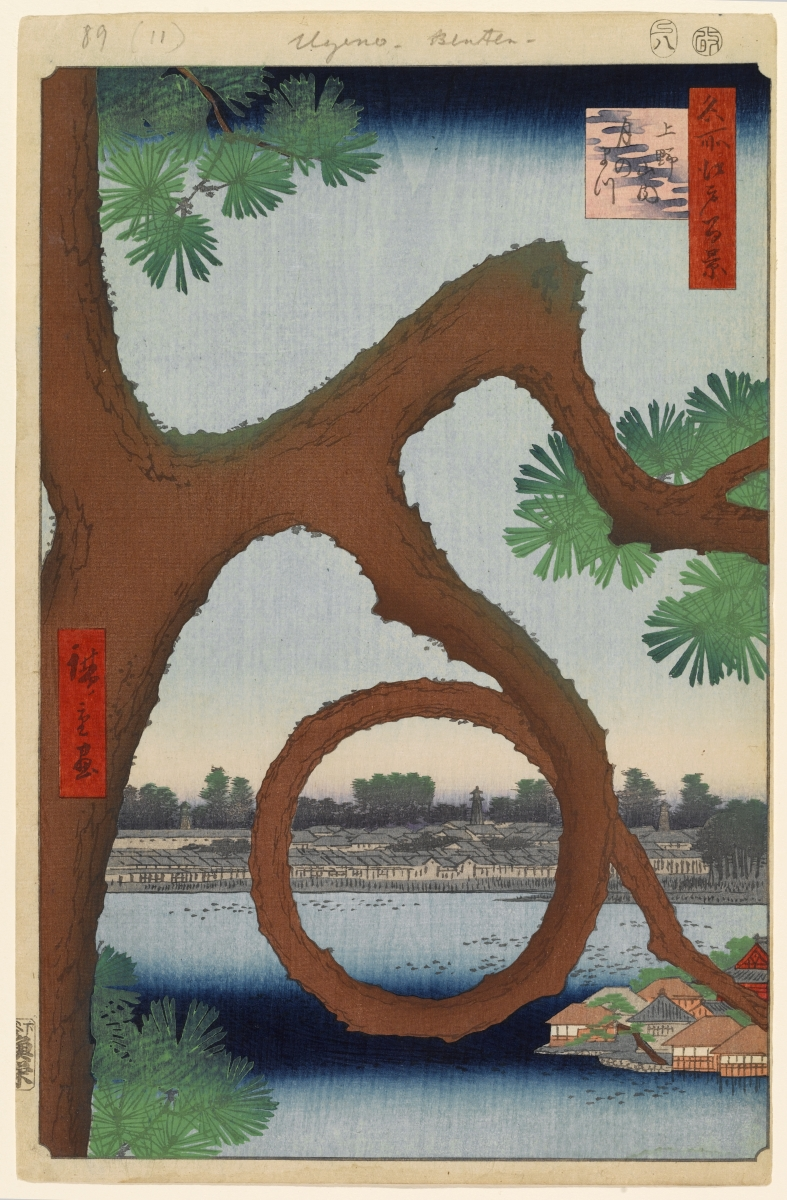 Part of the series One Hundred Famous Views of Edo, no. 089, part 3: Autumn.